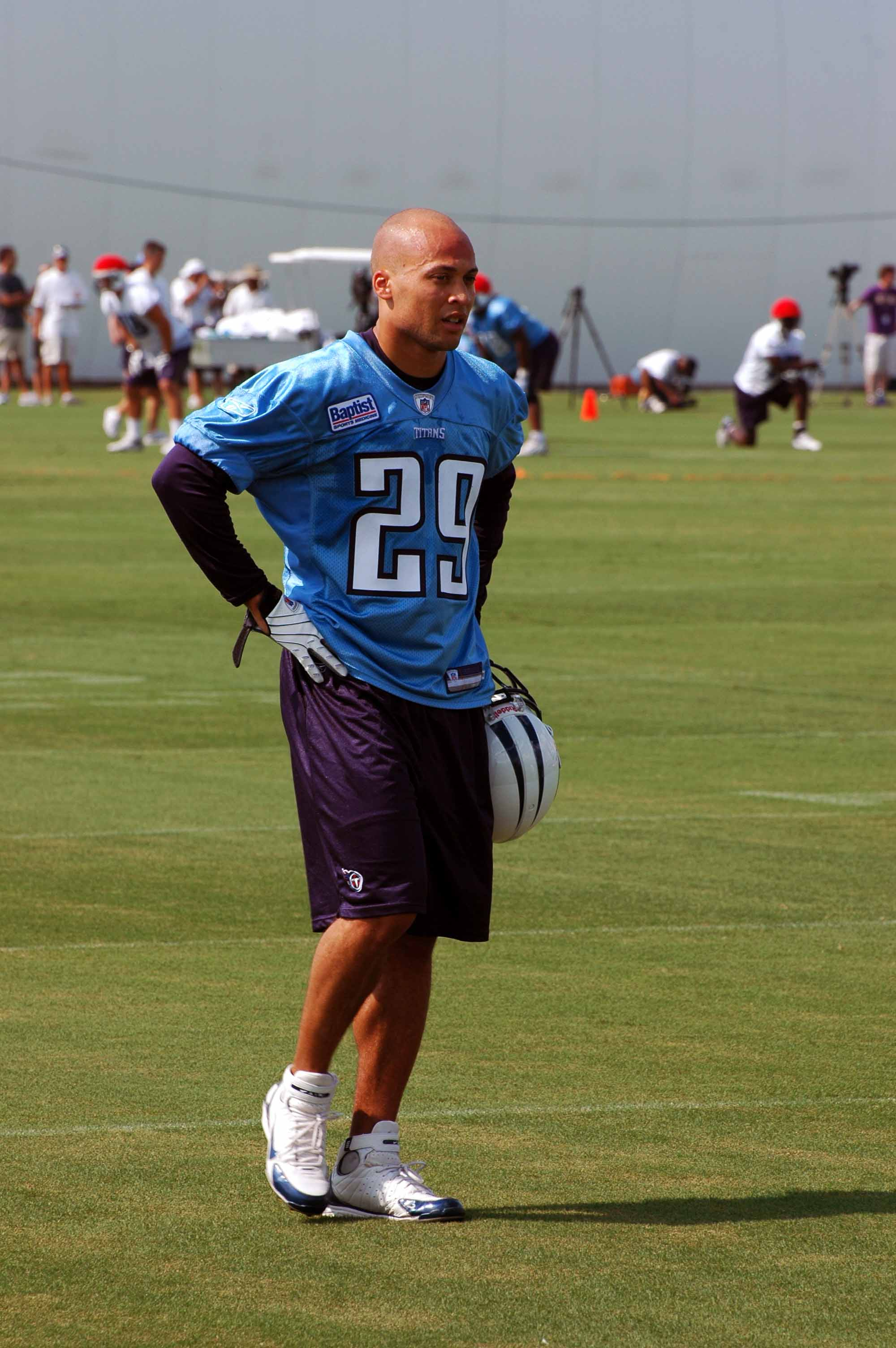 Cornerback,Chris Carr, at the 2008 Tennessee Titans training camp.